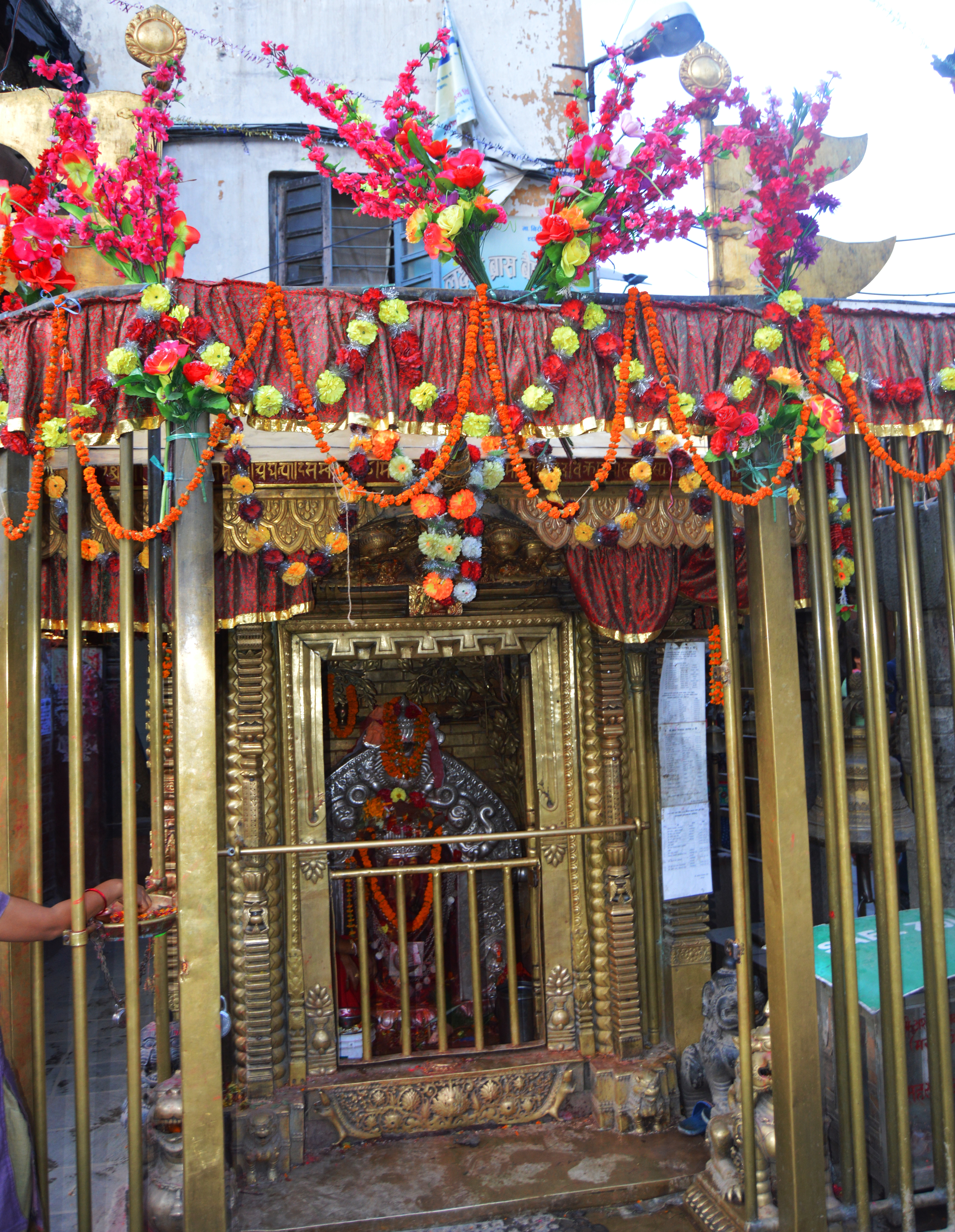 Ashok Vianayak Temple,locally called Maru Ganesh is one of the four most important Ganesh shrines of the valley. It is worshipped both by Hindus and Buddhists.